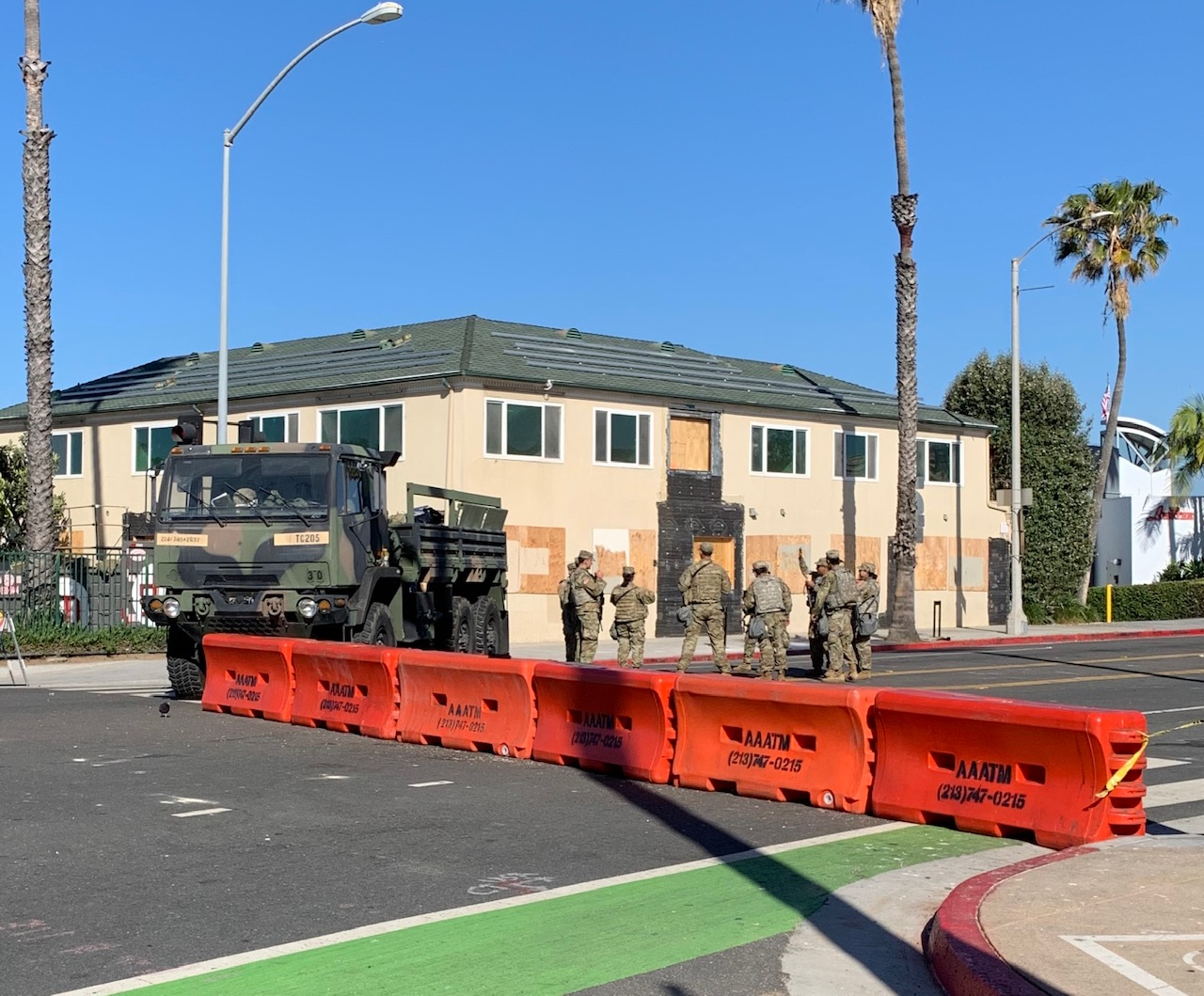 California National Guard troops block Santa Monica's businesses days after looters stole from local merchants during peaceful George Floyd protests elsewhere in the city.